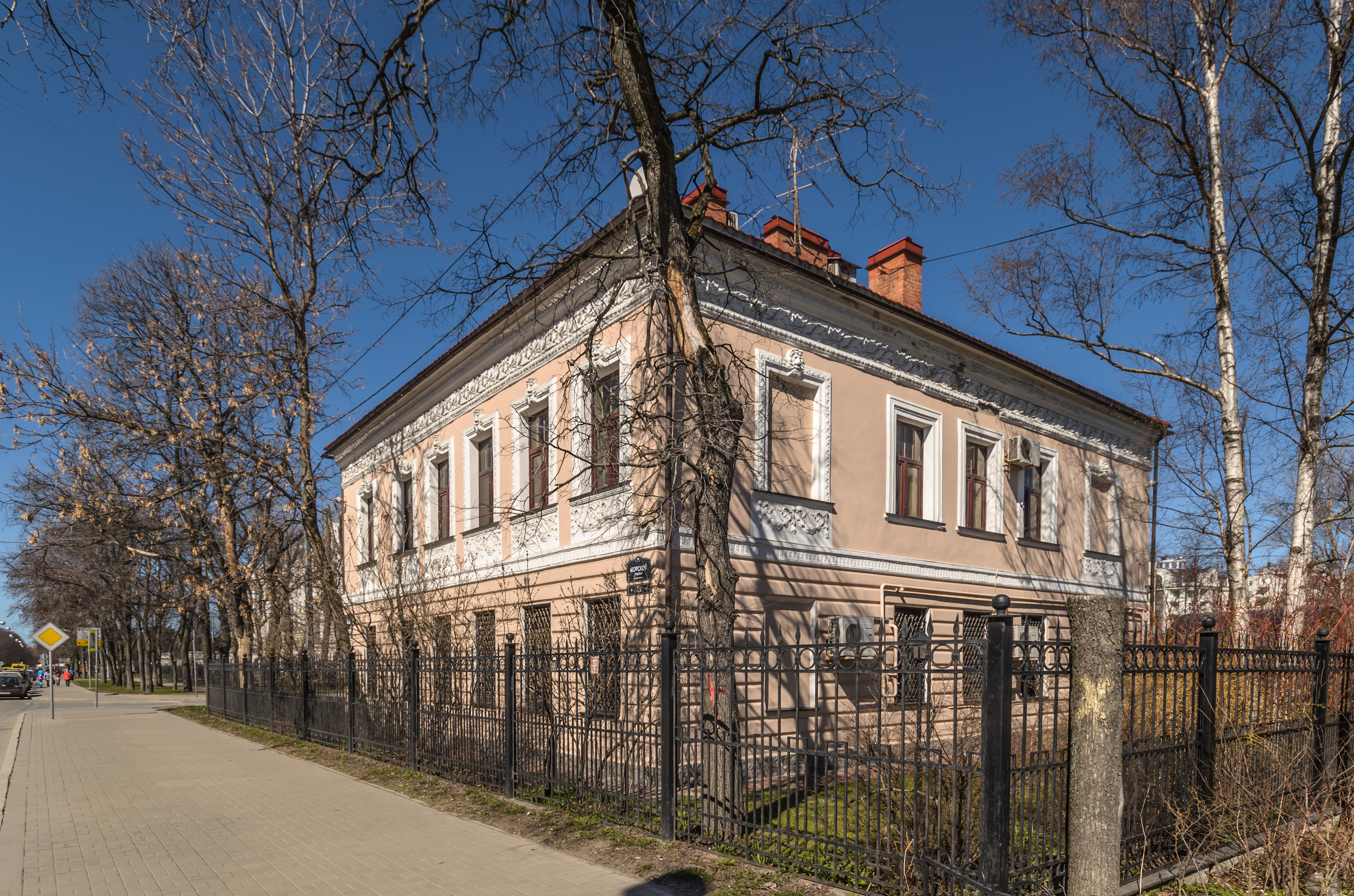 Morskoy avenue on Krestovsky island in Saint Petersburg